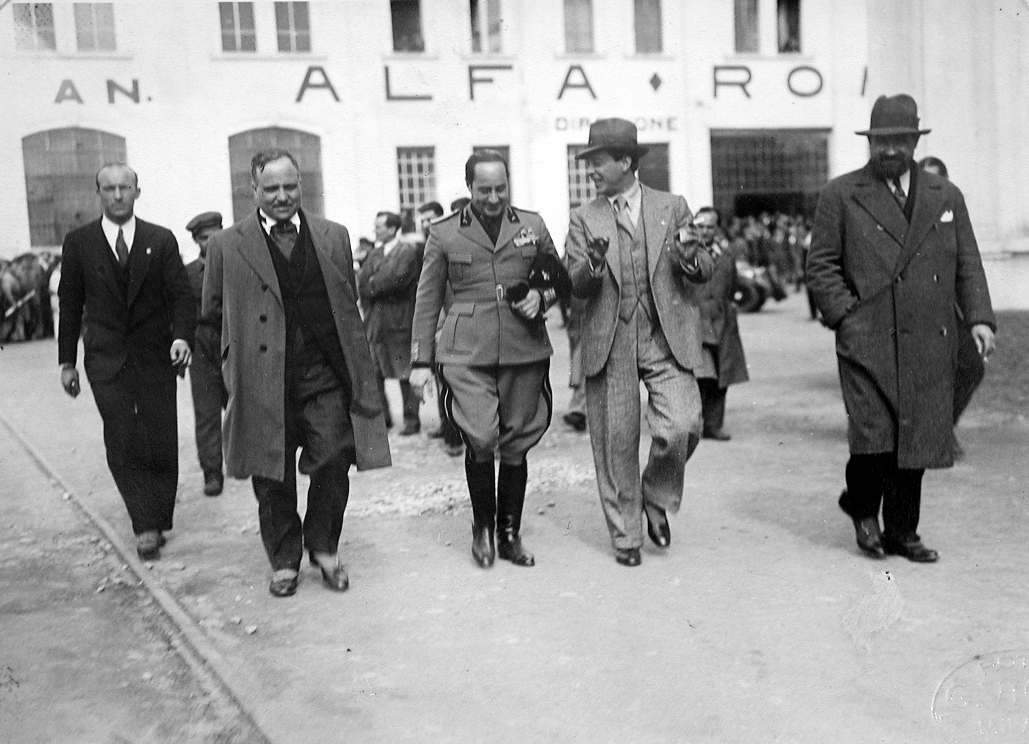 Prospero Gianferrari (2nd from right) in the Alfa Romeo factory in Milan, Italy, with fascist politicians Achille Starace (3rd from right) ed Italo Balbo (1st).